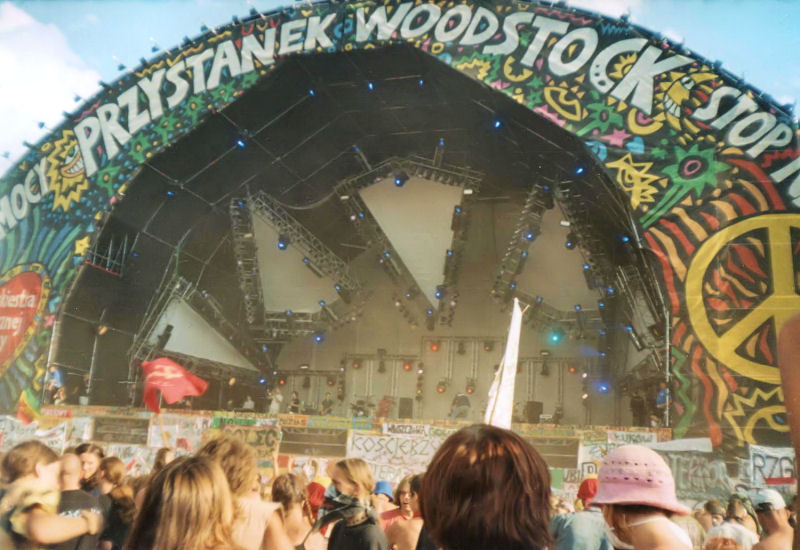 rock music festival - main stage